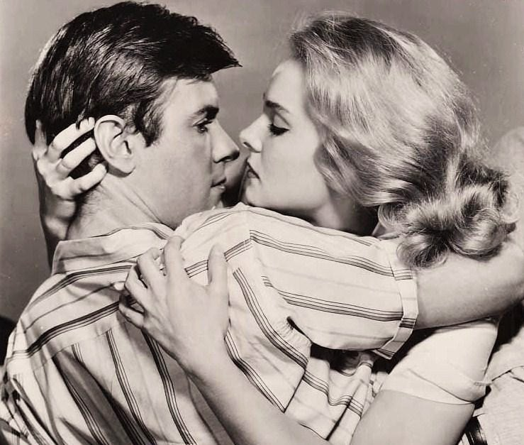 Will Hutchins & Diane McBain in Claudelle Inglish - publicity still (cropped)